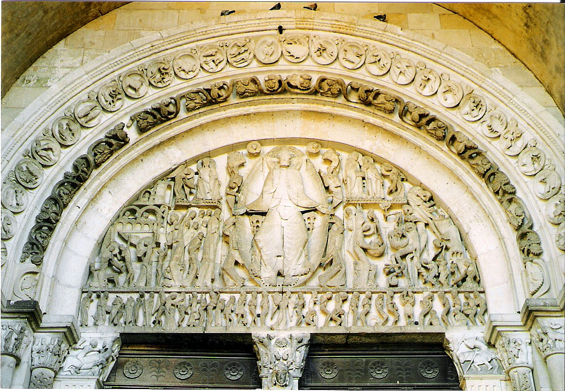 The Last Judgment Tympanum at Autun Cathedral, c. 1130, by Gislebertus